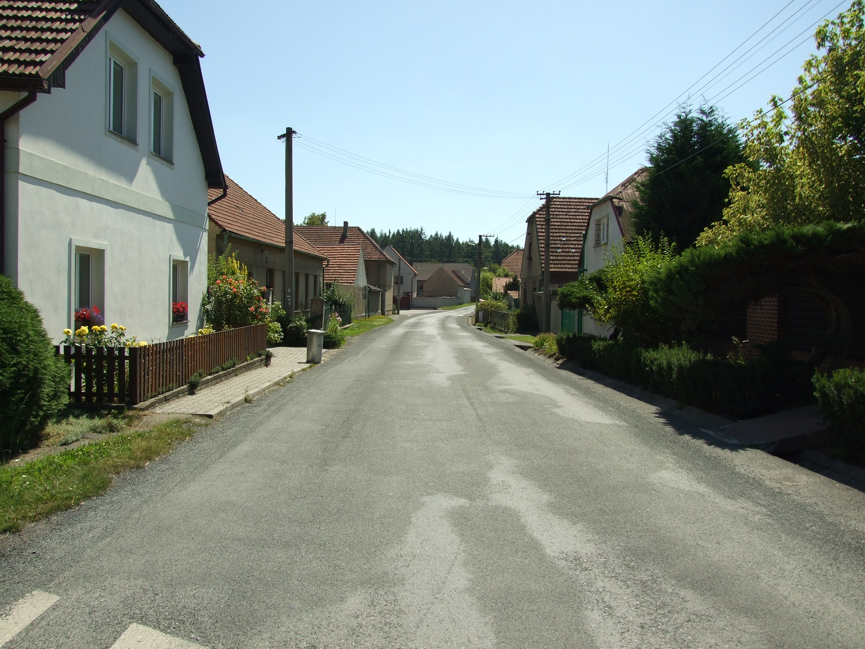 Drnek village in Kladno district, Central Bohemian region, CZ This photograph was taken within the scope of the 'Czech Municipalities Photographs' grant.